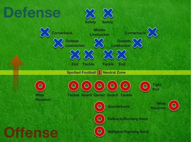 American football field posistions